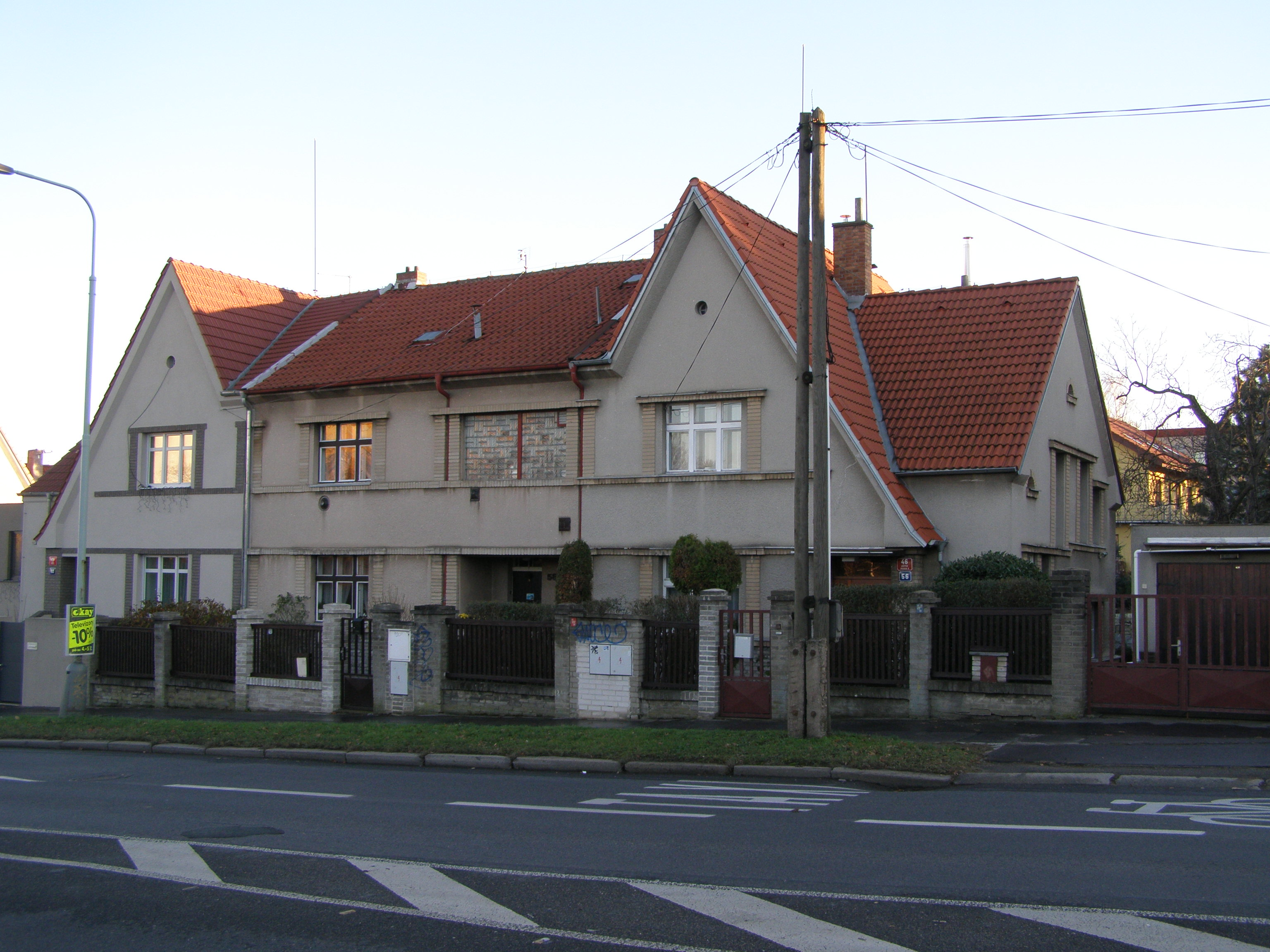 Three in one line family house at the address (from left to right) 142 00 Prague 4 - Lhotka, street Zálesí 48/60, 47/58 and 46/56. In the middle house (47/58) lived during the First Republic (and during the Protectorate) leader of an illegal resistance organization PVVZ in eastern Bohemia (the Chrudim and Nasavrky regions) and one of many of the organizers of intelligence services Ing. Josef Friedl (* 1907 - † 1945) with his wife and two children. In Protectorate (in the rightmost building (46/56))lived here significant participant in the anti-Nazi resistance and Academic Secretary of the YMCA JUC. Rudolf Mareš (* 1909 - † 1944) and his wife Ludmila and one-year son Tomáš (Thomas) with his mother in law and father in law. Here in the spring of 1940 tried the state police (Gestapo) to arrest Mr. Rudolf Mares but Mareš managed to escape. He jumped out of the room through the window and escaped through the garden to the neighboring house.